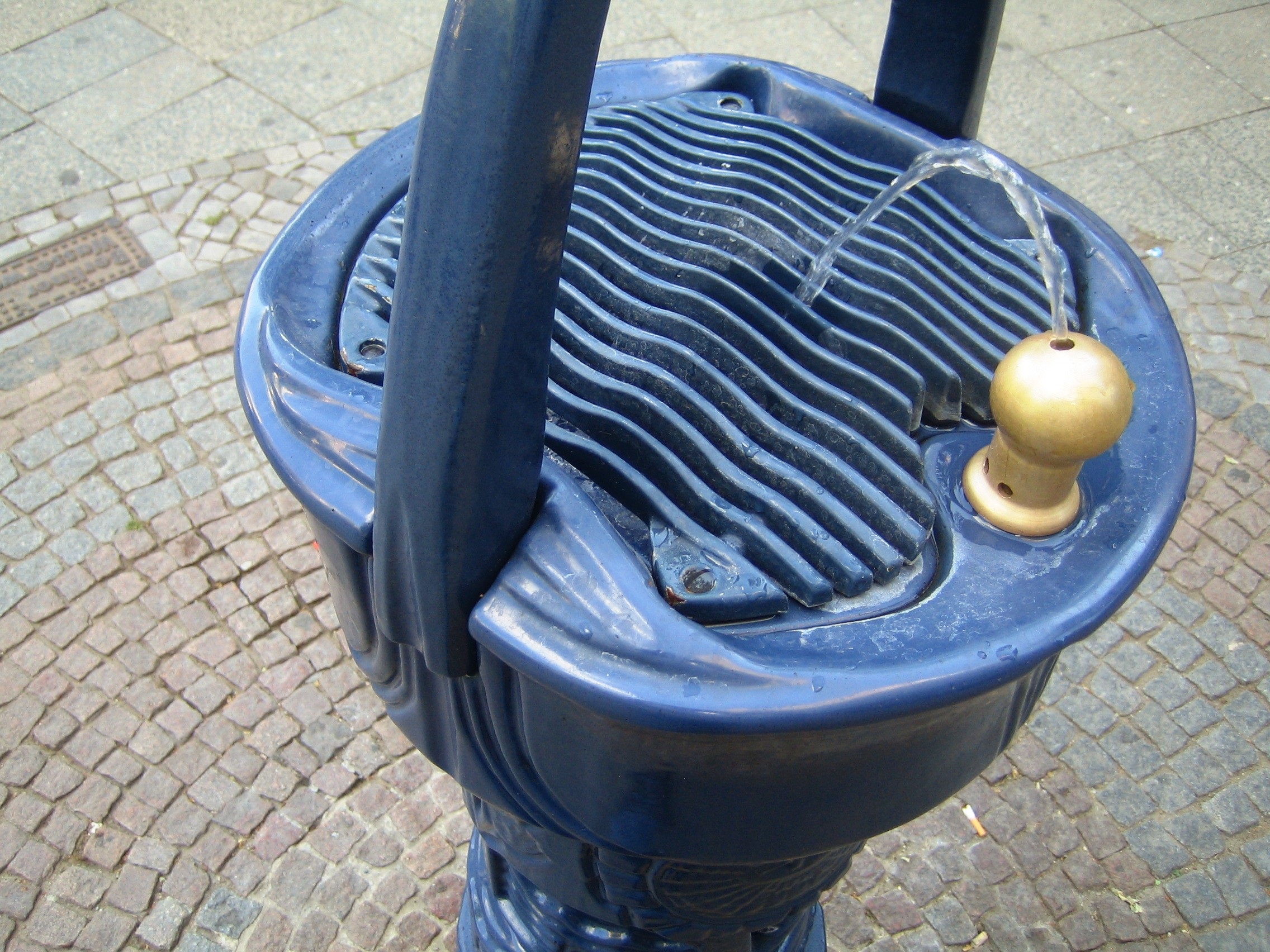 Fountain with drinking-water at Fehrbelliner Platz in Berlin-Wilmersdorf (Germany). Partial view.